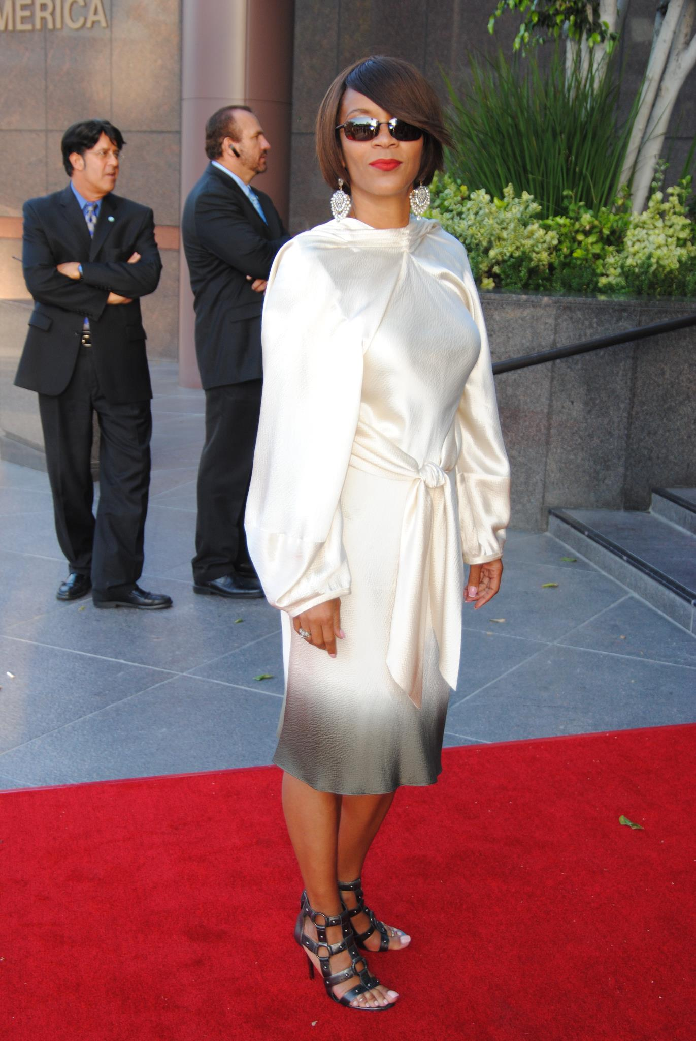 Regina Louise at the 20th Annual NAACP Awards.